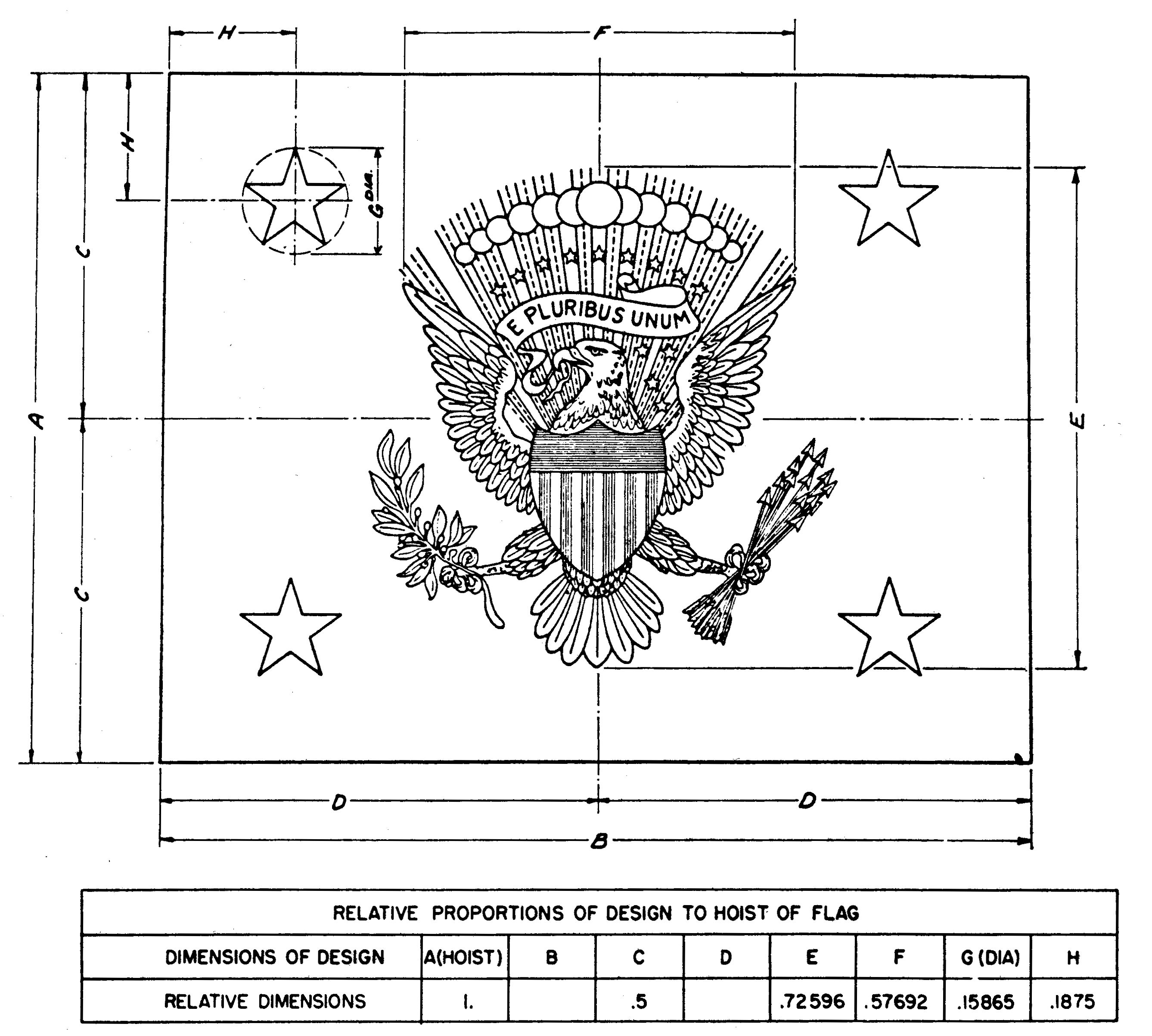 Specification for the 1975 (and still current) version of the Flag of the Vice President of the United States. This is an attachment to President Ford's Executive Order 11884, which defined the flag.